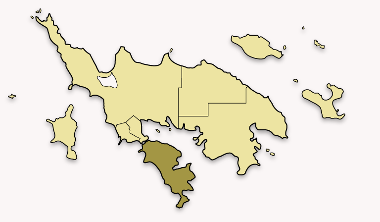 Map of Culebra (Puerto Rico) highlighting Playa_Sardina_II ward